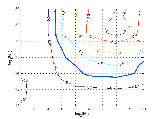 Gain of the overlap-add method wrt the standard FFT method to evaluate a circular convolution, vs signal length Nx and filter length Nh.